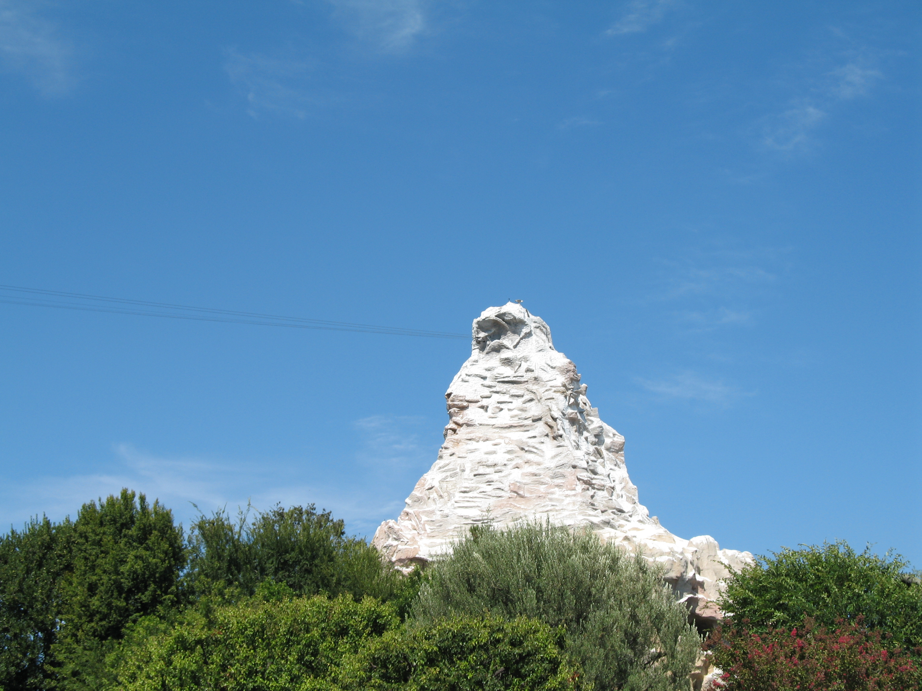 Photo of the Matterhorn Bobsleds attraction at Disneyland.